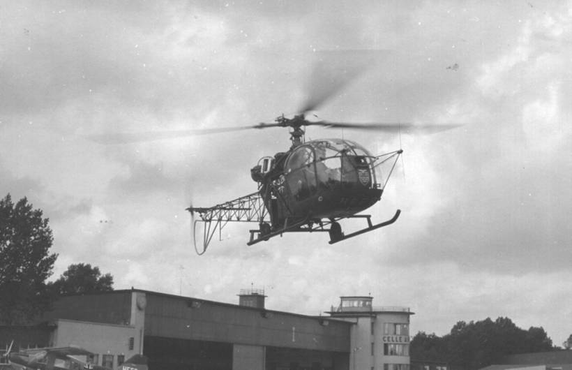 An Alouette II hovering in front of Hangar I at Heeresflugplatz Celle (Celle Air Base)